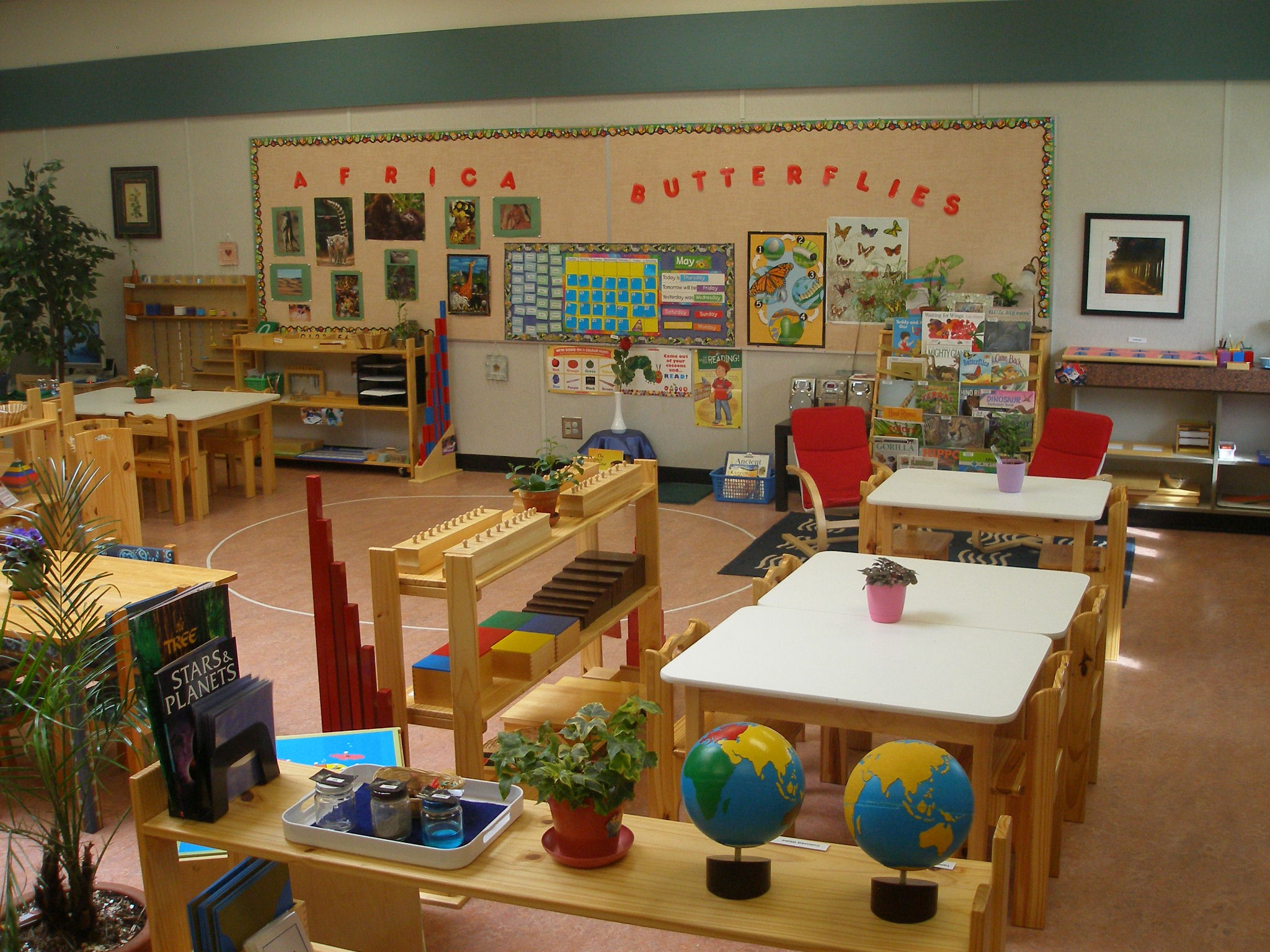 escola_montessori